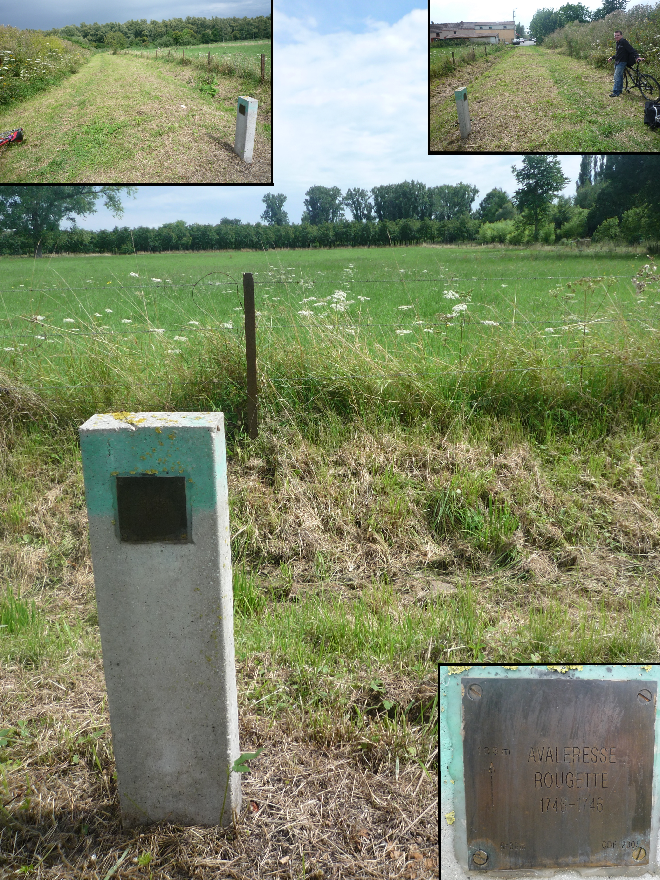 Avaleresse Rougette at Fresnes-sur-Escaut, Nord, Nord-Pas-de-Calais, France